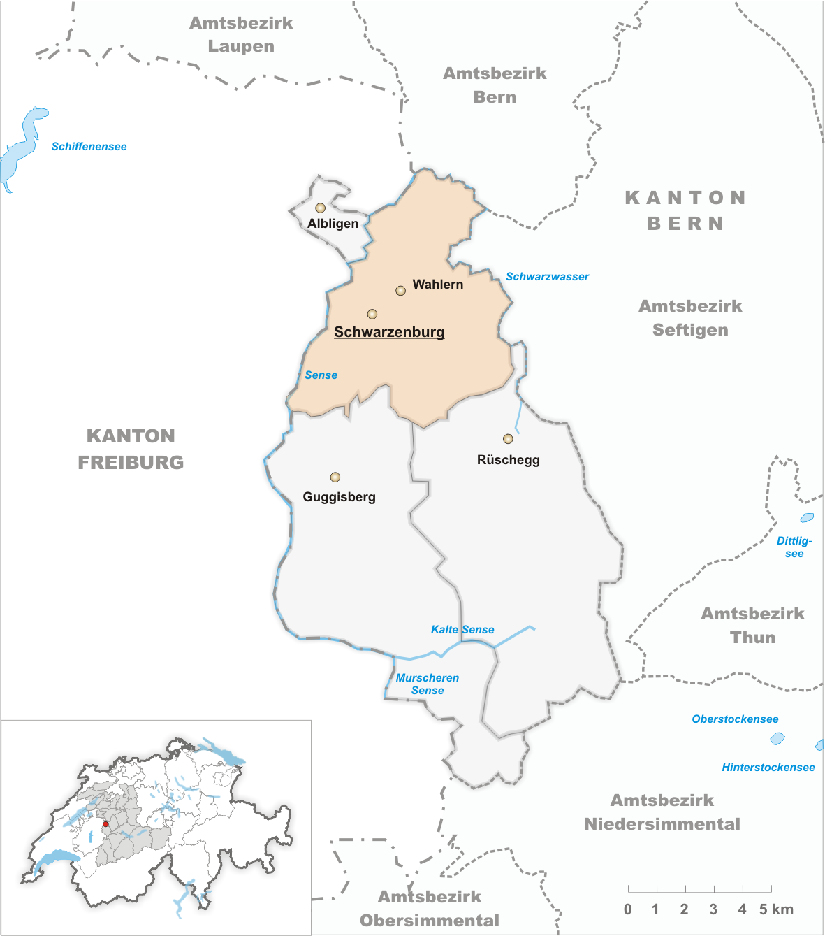 Municipality Wahlern